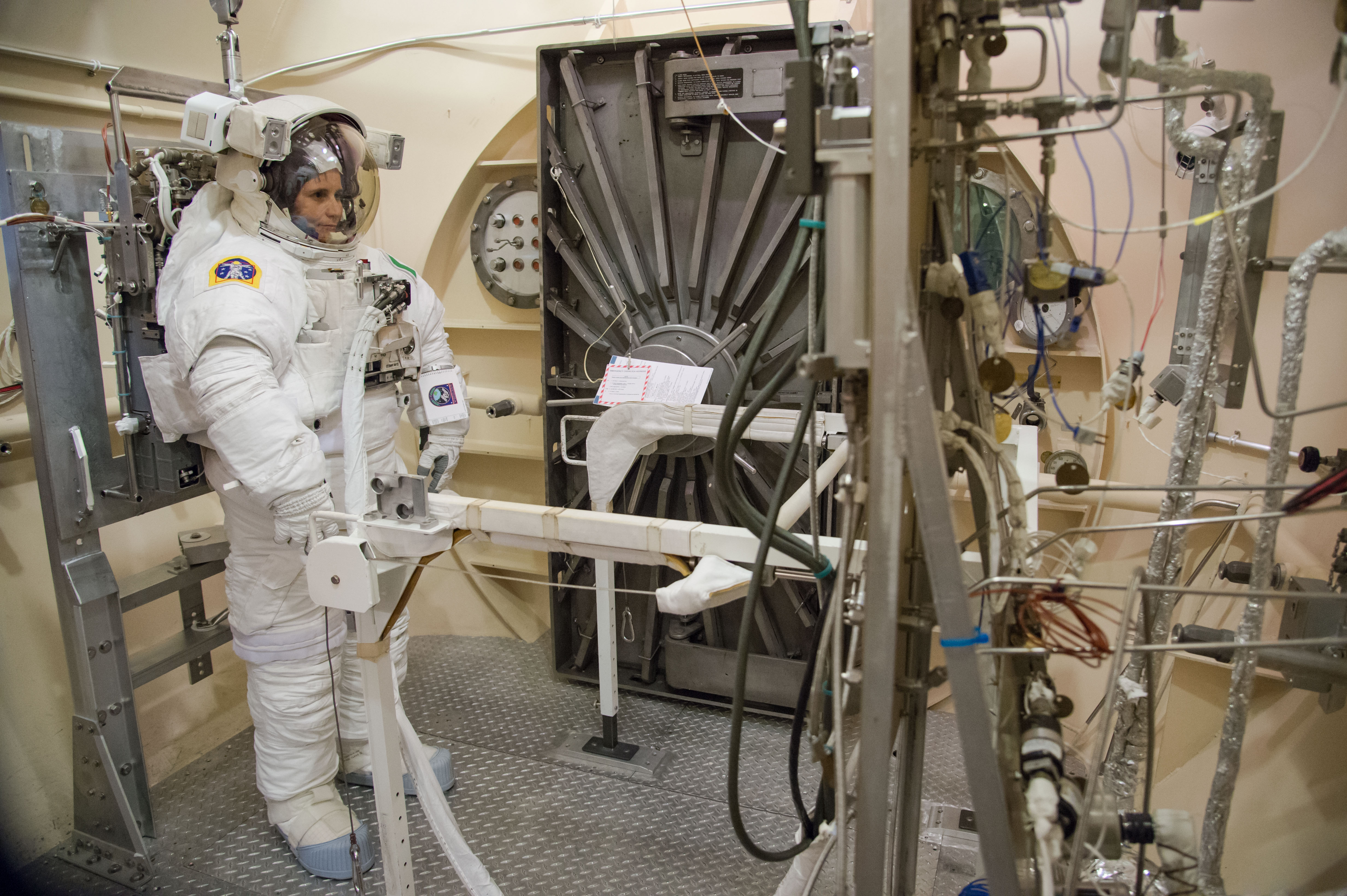 European Space Agency astronaut Samantha Cristoforetti, Expedition 42/43 flight engineer, participates in an Extravehicular Mobility Unit (EMU) spacesuit training and certification session in the 11-foot chamber located in the Crew Systems Laboratory at NASA's Johnson Space Center.